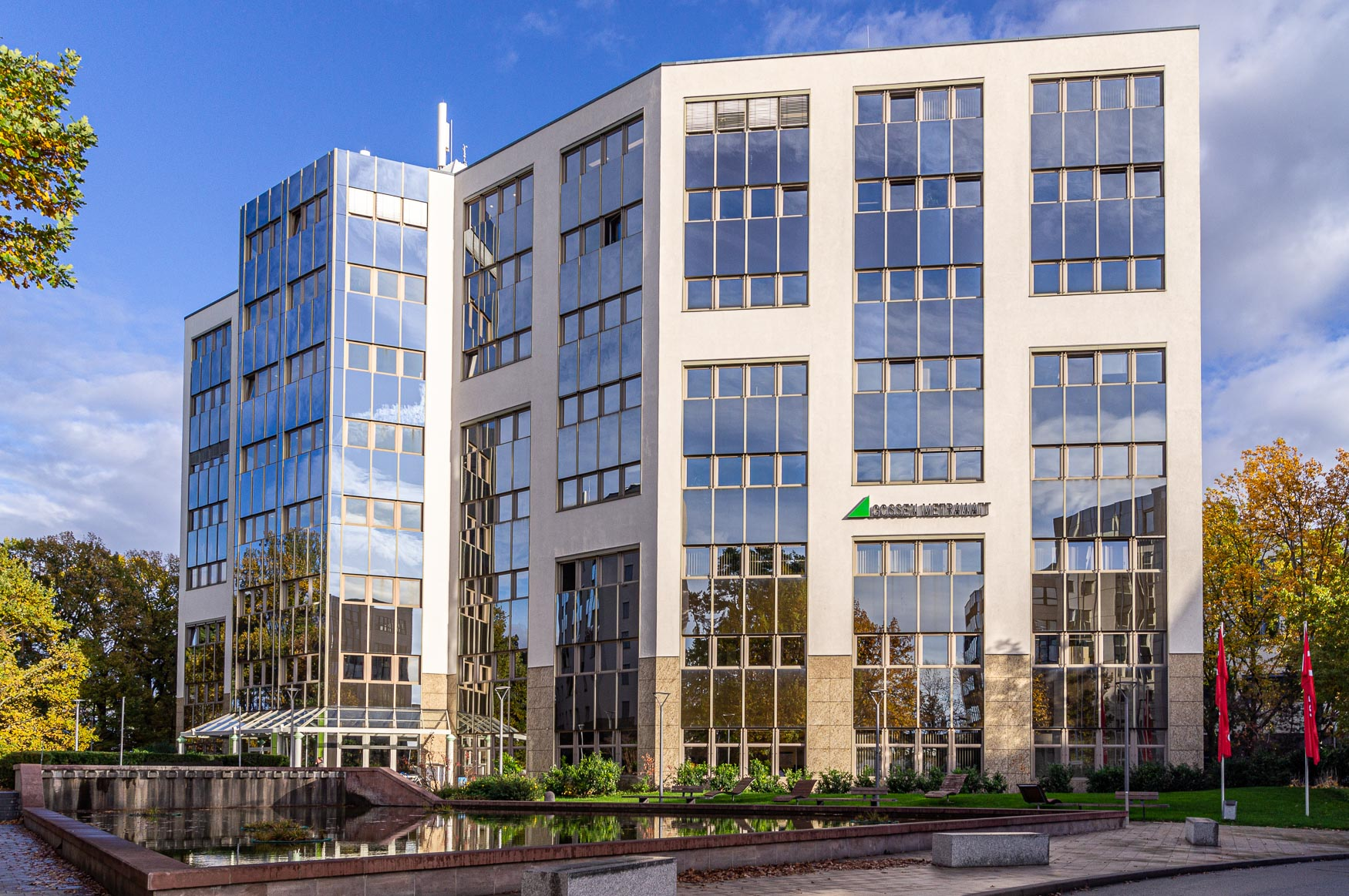 Headquarters of GOSSEN METRAWATT